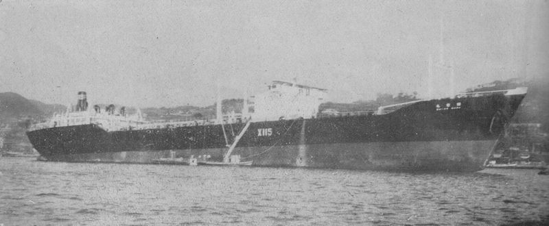 Okada Shosen K.K. oiler Zuiun Maru (Imperial Japanese Army Type Toku-2TL wartime standard ship)